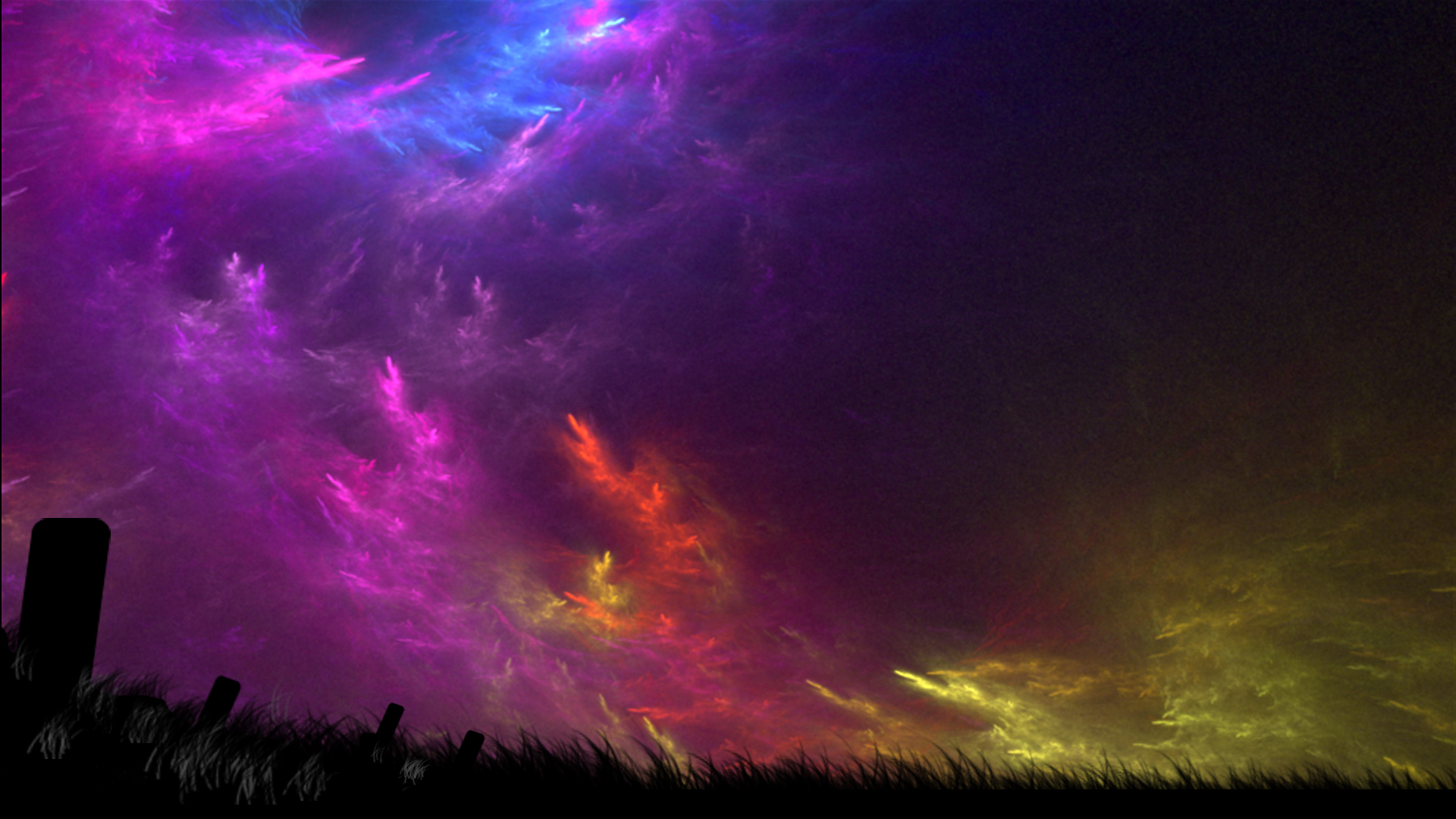 The beauty of the sky and the earth have been compared to the despair Live above ground and live up to heaven.